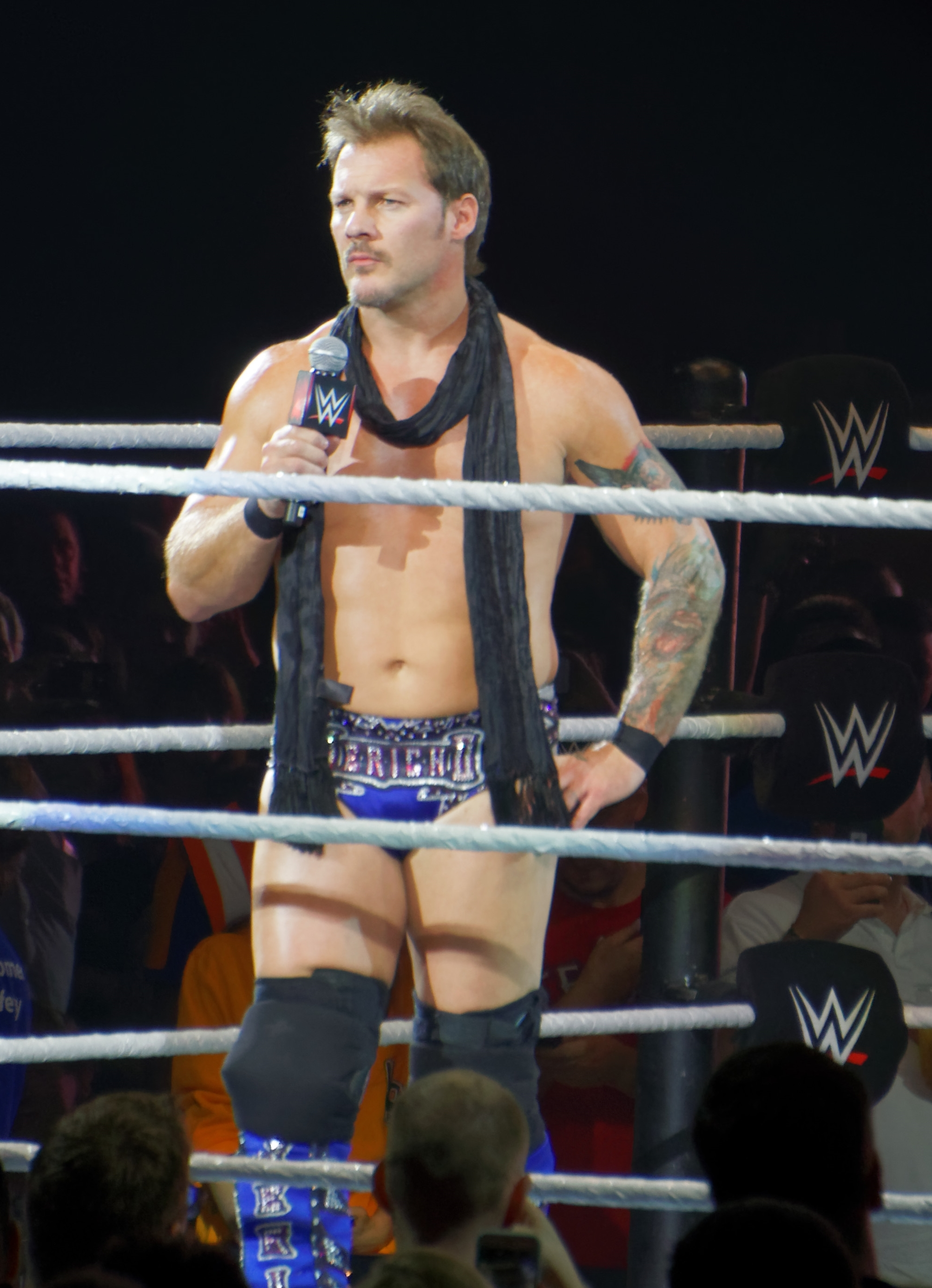 Chris Jericho in September 2016